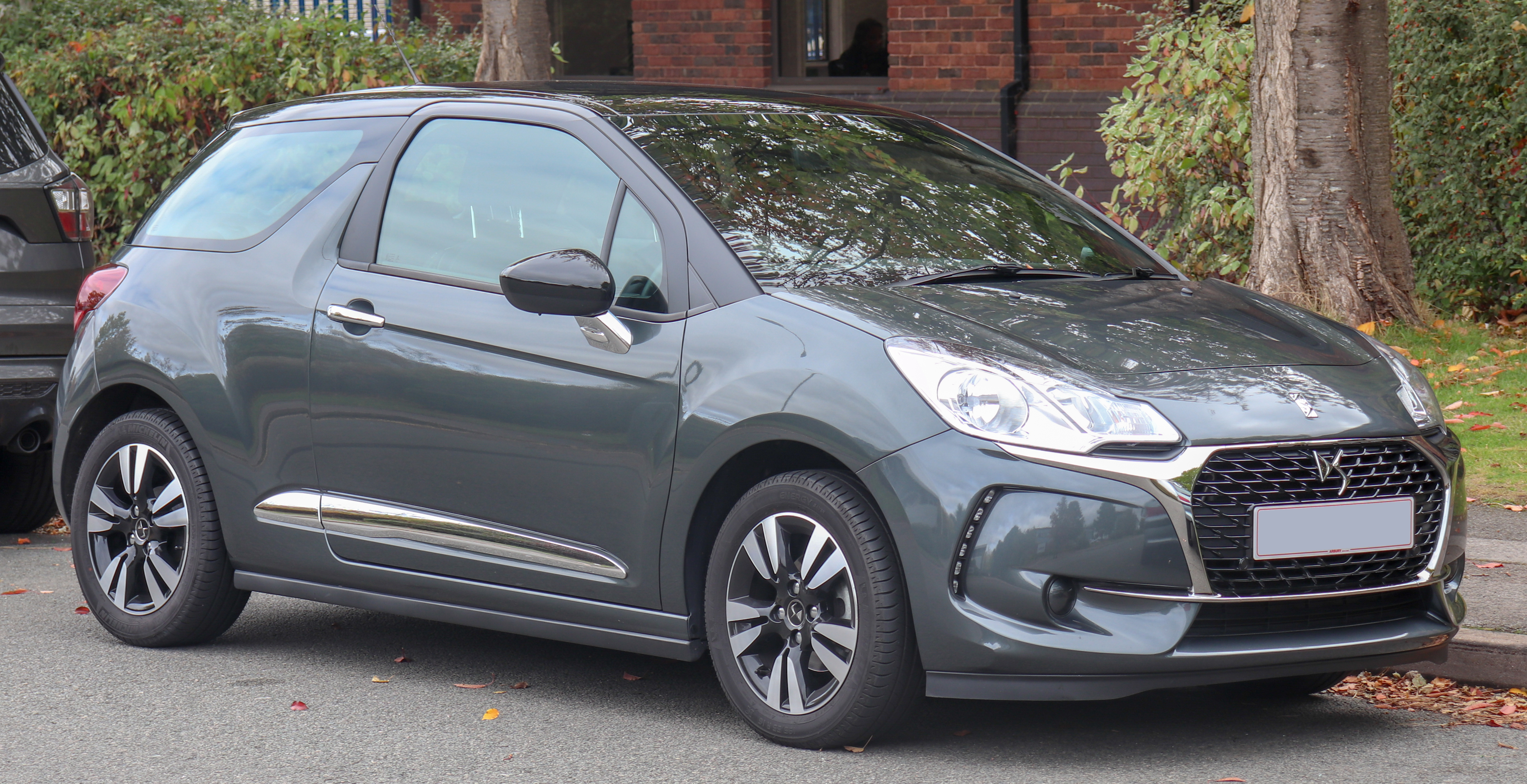 2017 DS 3 Chic PureTech 1.2 Front Taken in Leamington Spa